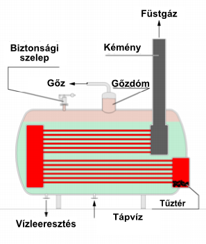 Internally fired Steam Boiler (Italian)